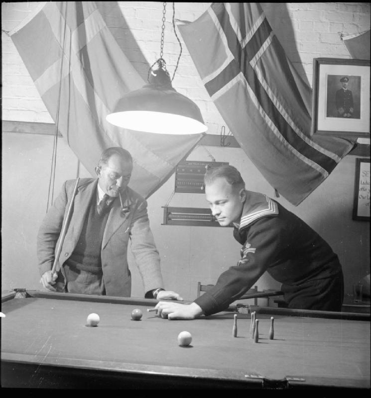 The Seven Seas Club- Life at the Merchant Navy Club, Edinburgh, Scotland, 1943 Olaf Christensen (left) from Denmark and Olaf Lien, a sailor from Norway play a game of pin billiards at the Seven Seas Club in Edinburgh. Above them are flags of two of the countries whose citizens patronise this club.